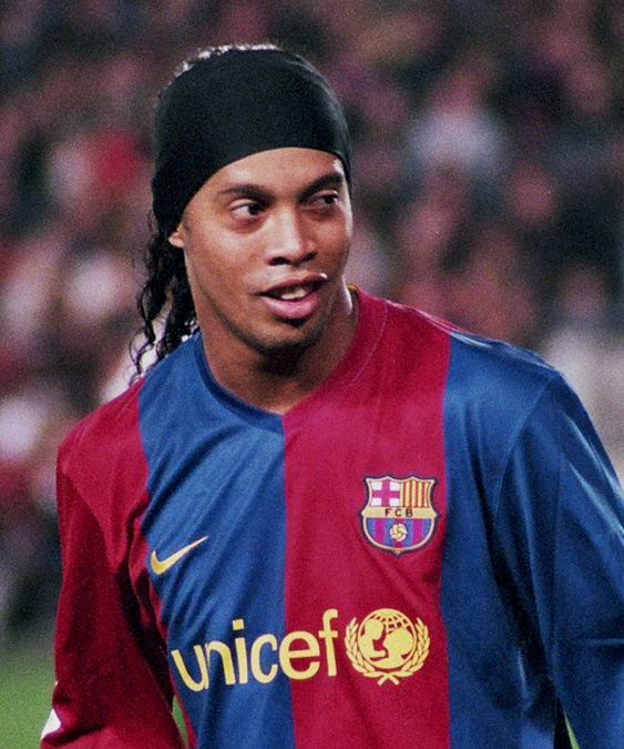 Ronaldinho, FC Barcelona's player, during the match FC Barcelona-Racing de Santander.